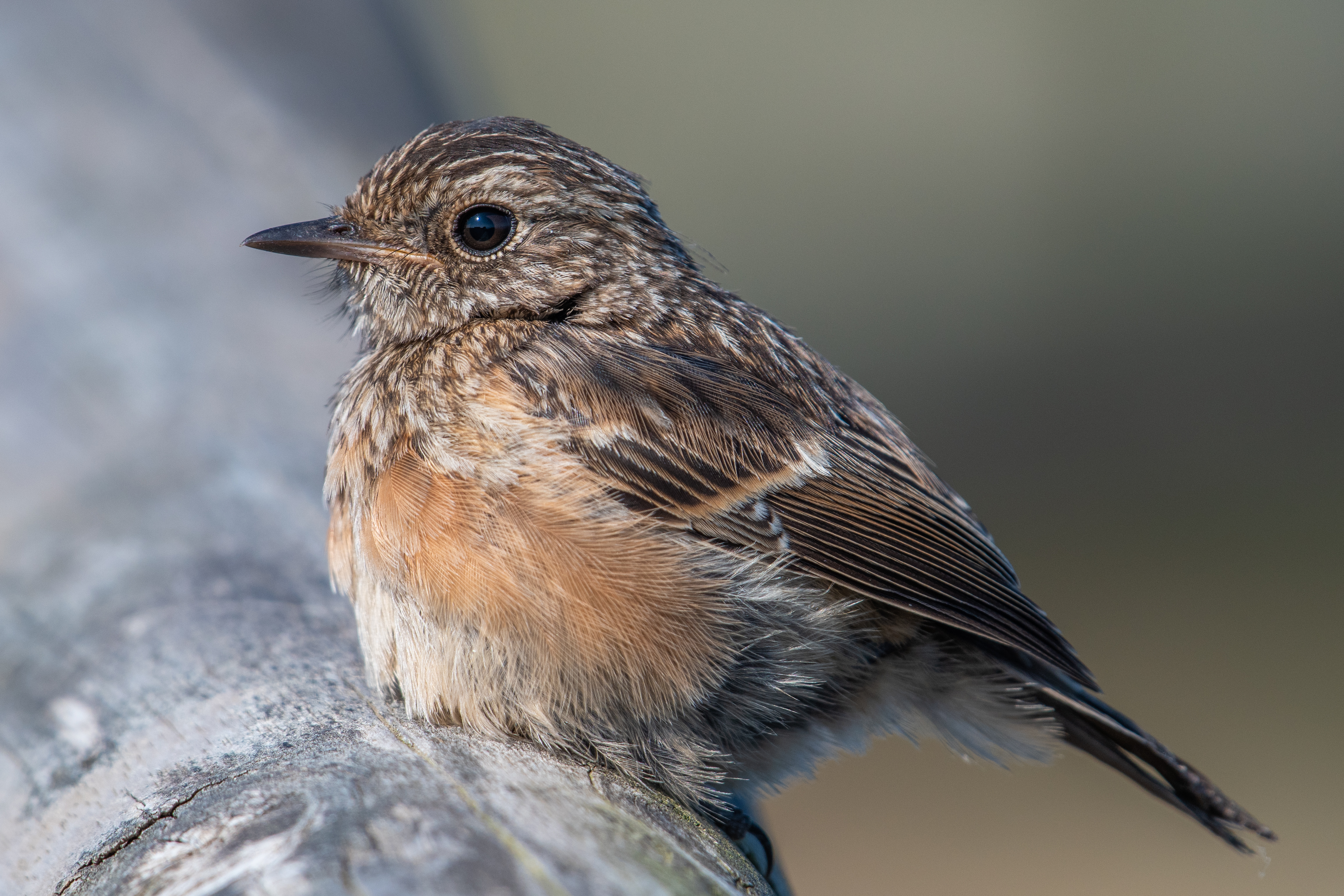 European stonechat, juvenile (Saxicola rubicola) Date: September 17, 2018 Location: Cabo de Peñas, Asturias, Spain